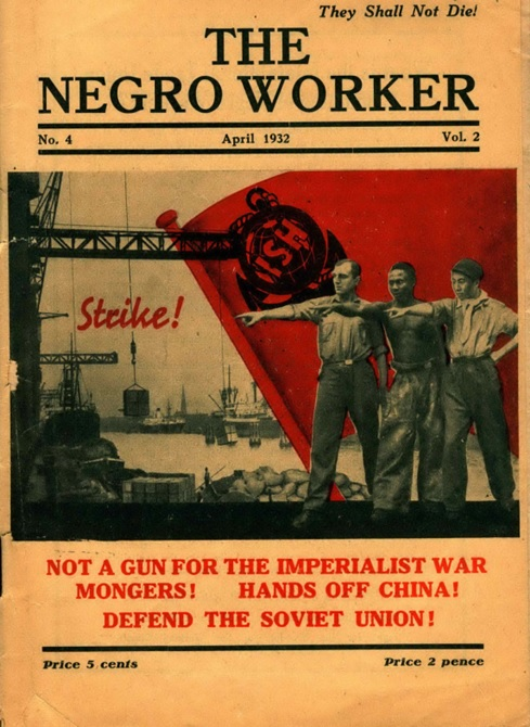 Cover of April 1932 issue of The Negro Worker, a publication of the International Trade Union Committee of Negro Workers